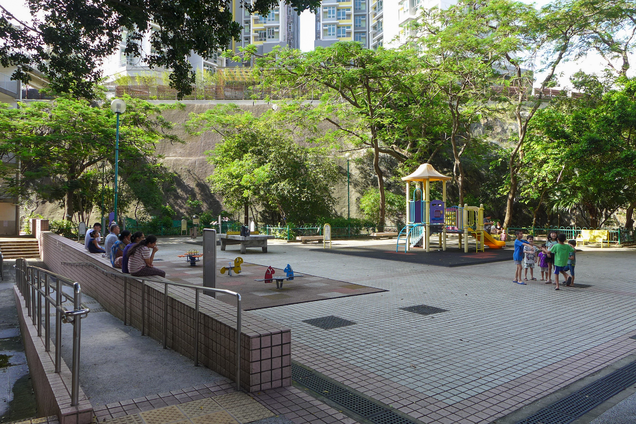 Cheung Ching Estate Children Play Area